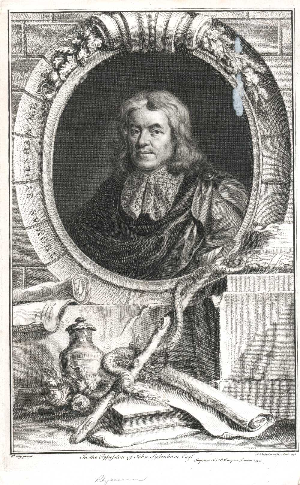 Portrait of Thomas Sydenham